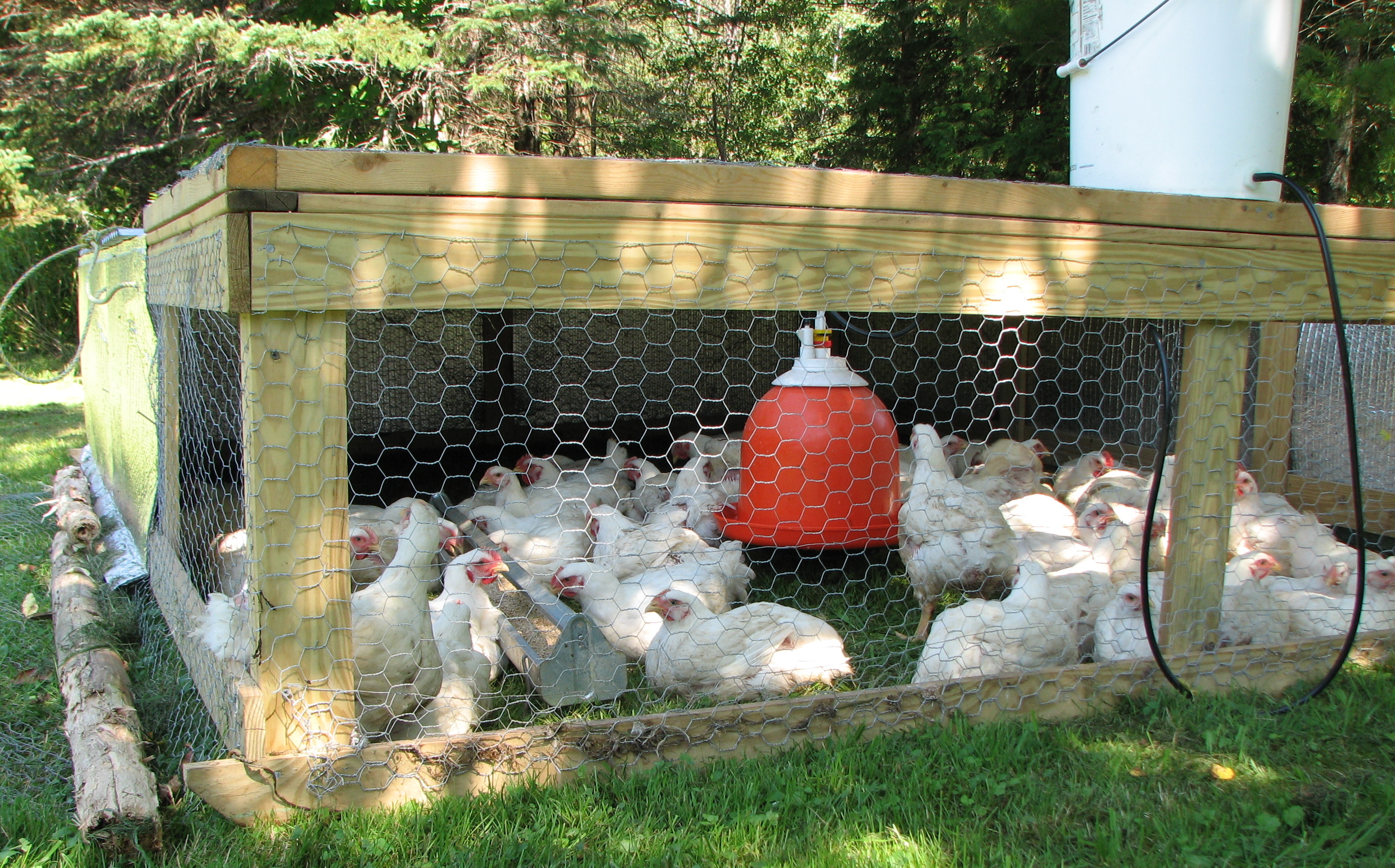 Broiler type Cornish Rock chickens on pasture in a movable pen. Birds are six weeks old and the pen is exactly two feet tall. This a smaller version of Joel Salatin's movable coop, it holds 60 birds in an 8 foot X 10 foot enclosure which is on skids and wire skirting. Coop is designed to be moved once daily onto clean pasture. Picture taken in Hampden, Maine.